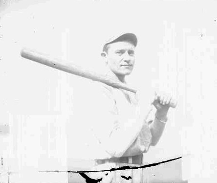 "Informal three-quarter length portrait of baseball player Schlitzer of the American League's Philadelphia Athletics baseball team, holding a baseball bat over his shoulder, standing outdoors in Chicago, Illinois."